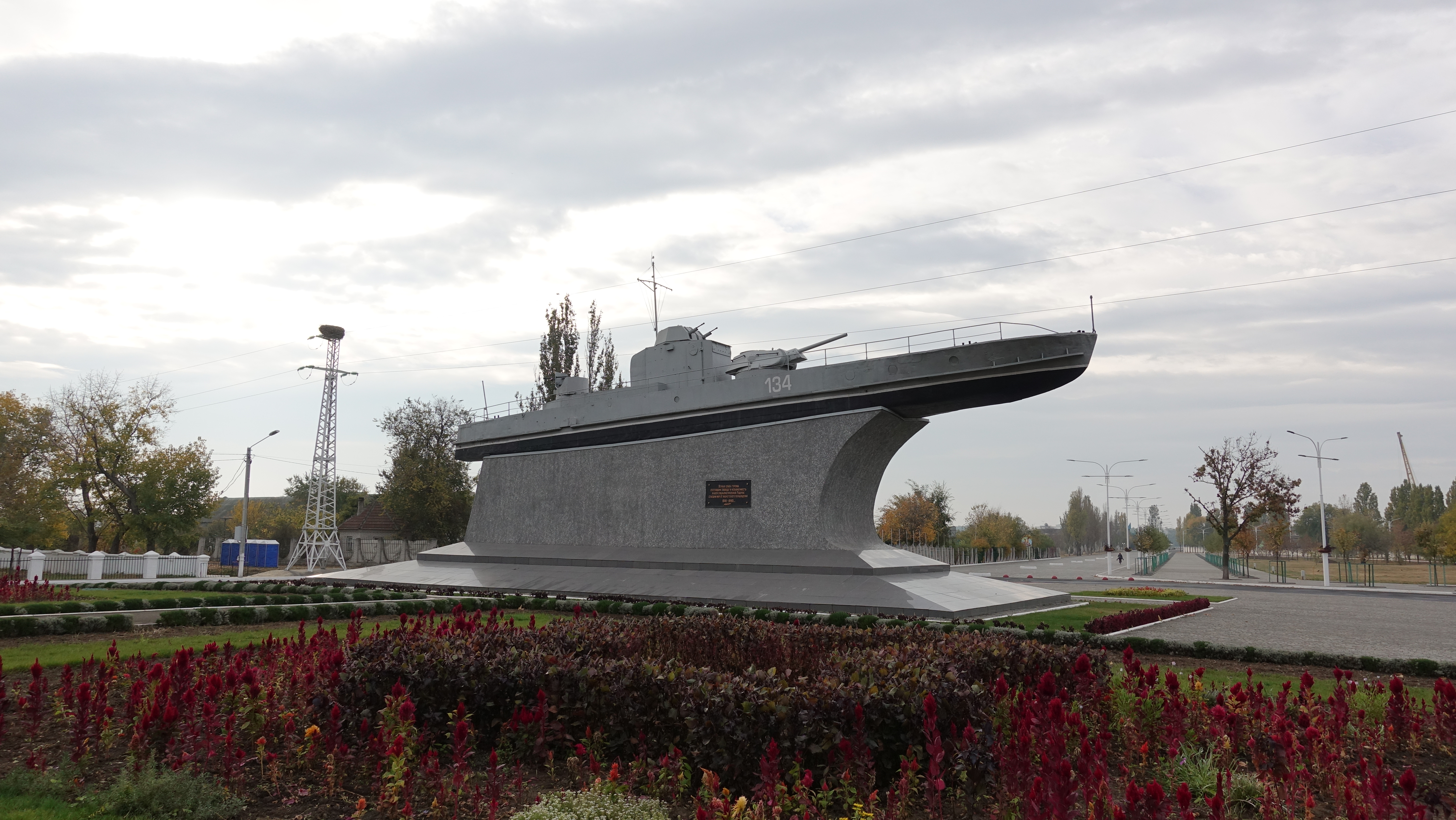 Memorial to Sailors of Danube